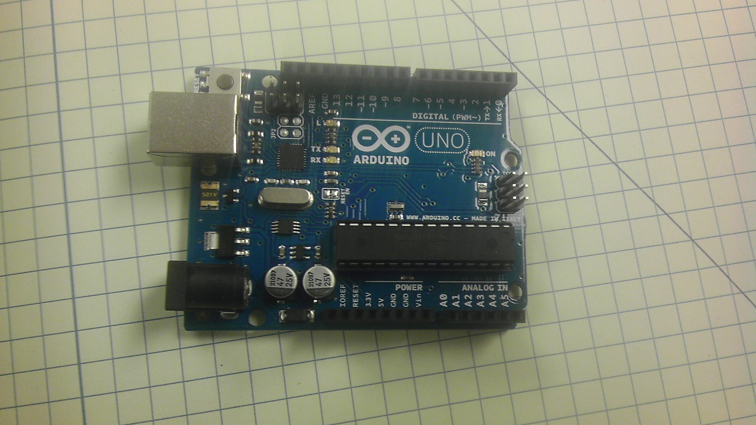 arduino uno i used